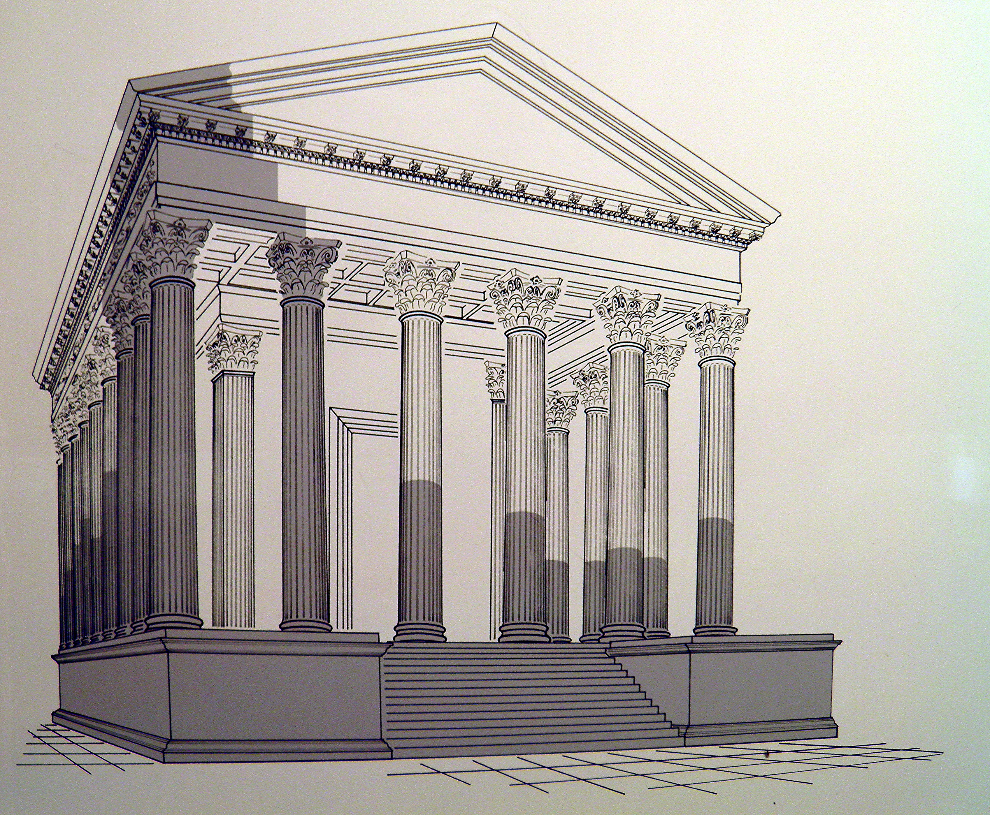 Reconstruction drawing of the Harbour Temple, Xanten, Germany